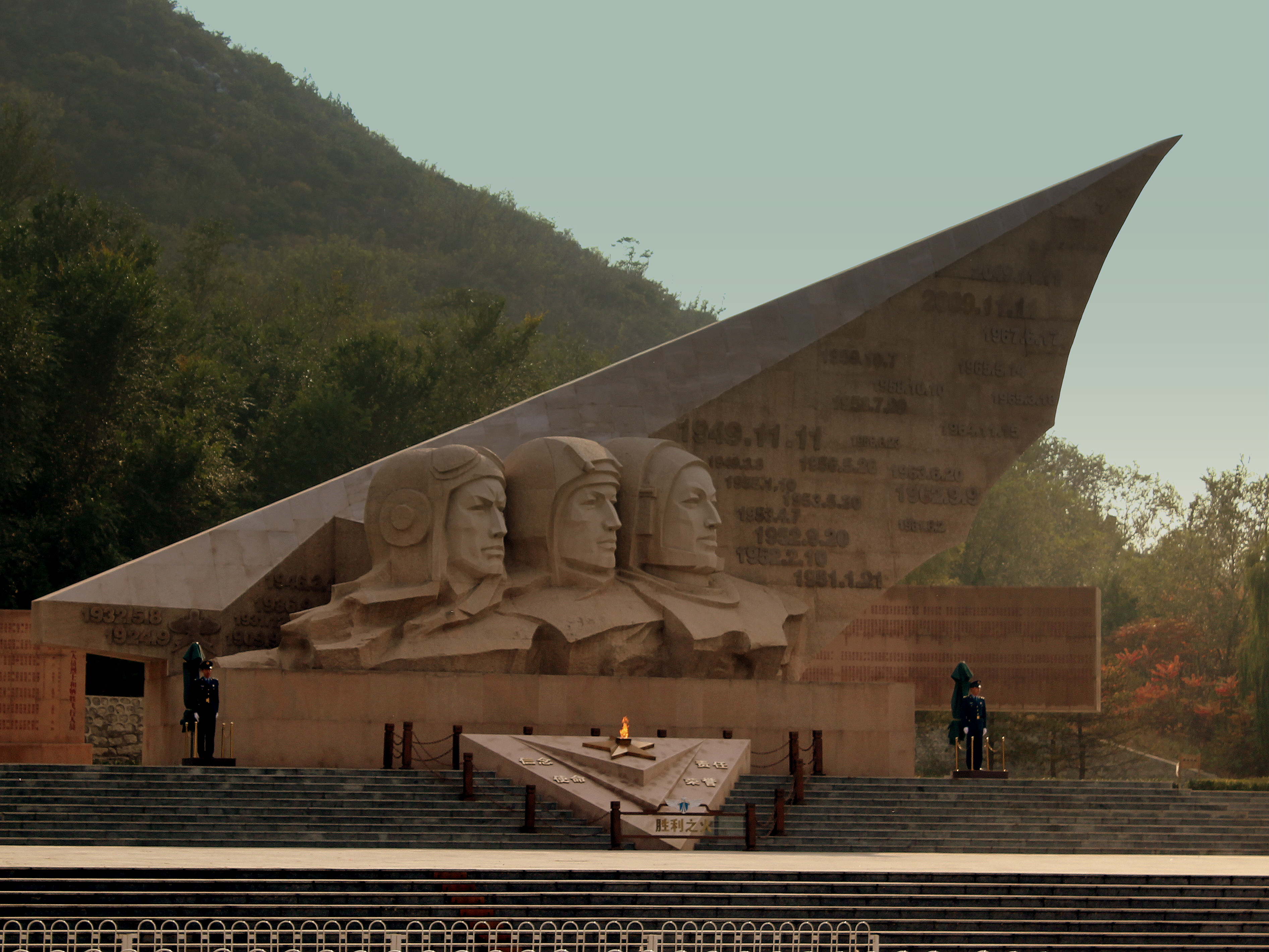 DATANSHAN AVIATION MUSEUM BEIJING CHINA OCT. 2012